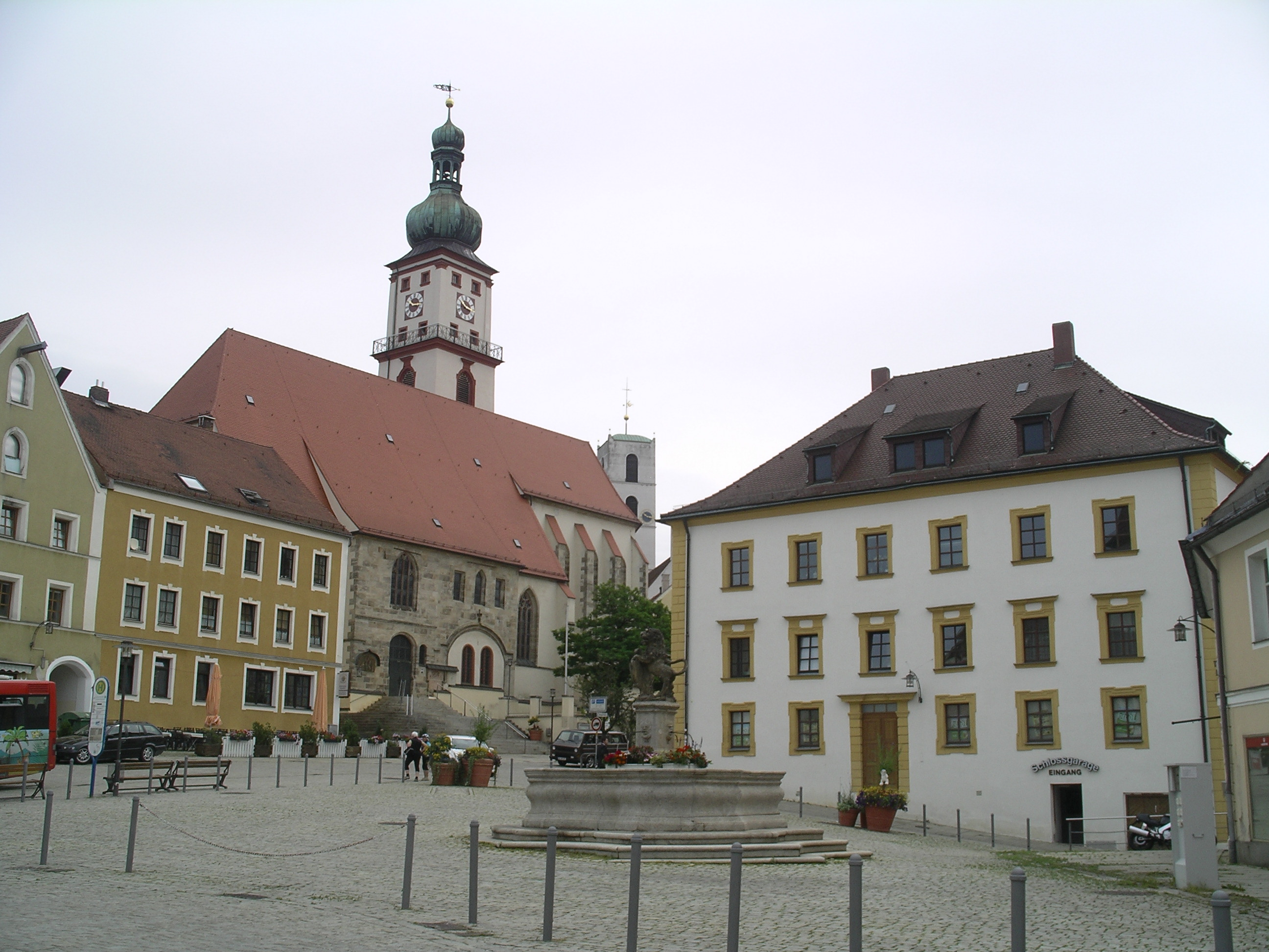 Church St. Mary, Luitpoldplatz, Sulzbach-Rosenberg